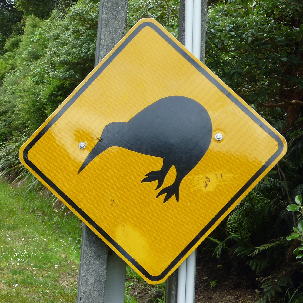 Road sign warning of Kiwis, on Stewart Island in New Zealand